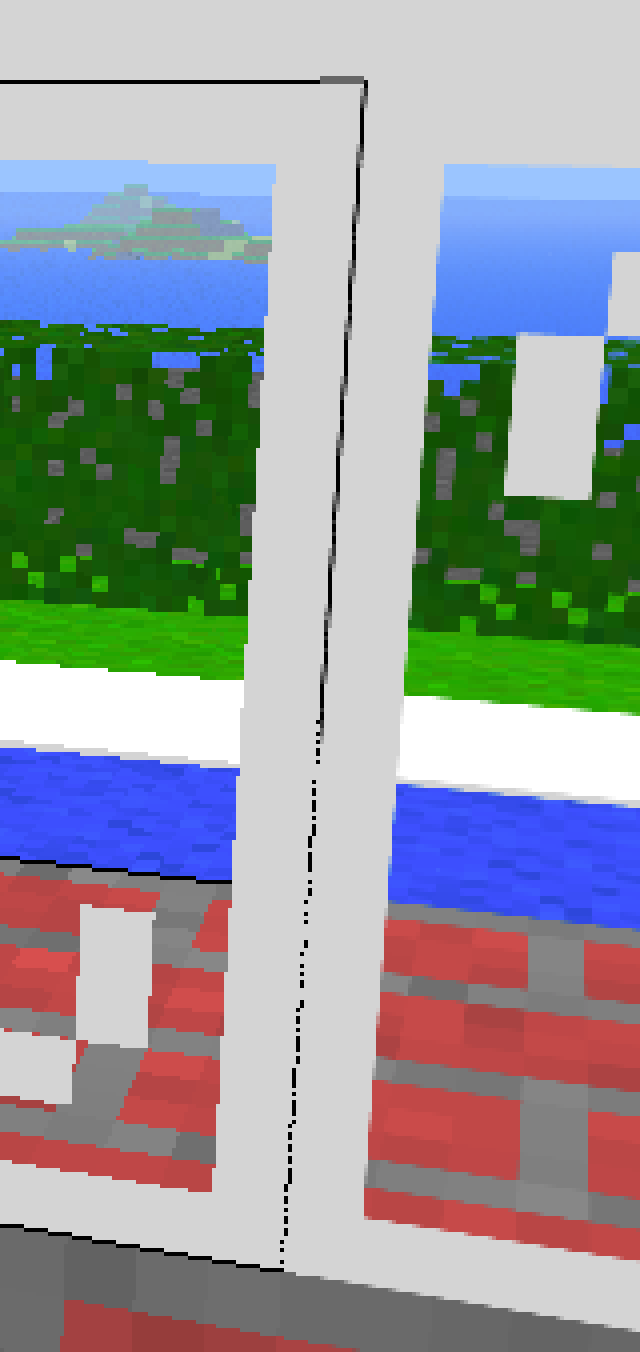 comparision of